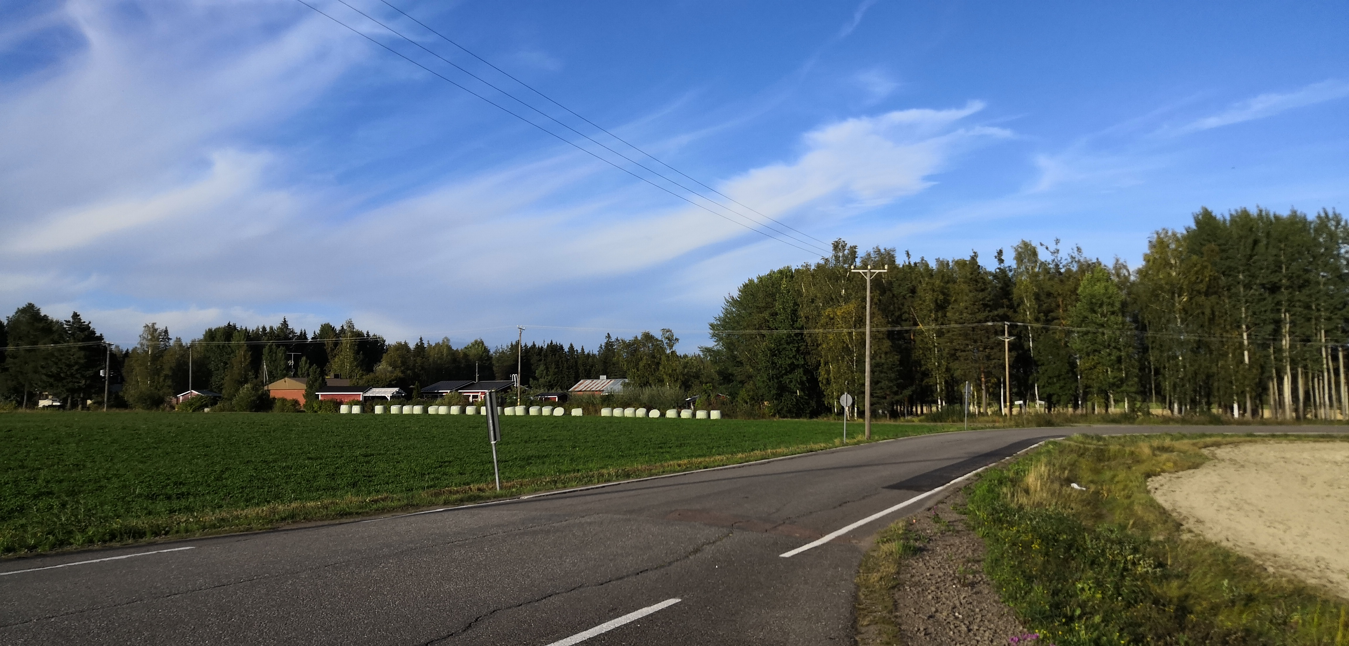 Valkealan Miehon kylää ja Lappakoskentie elokuussa 2019